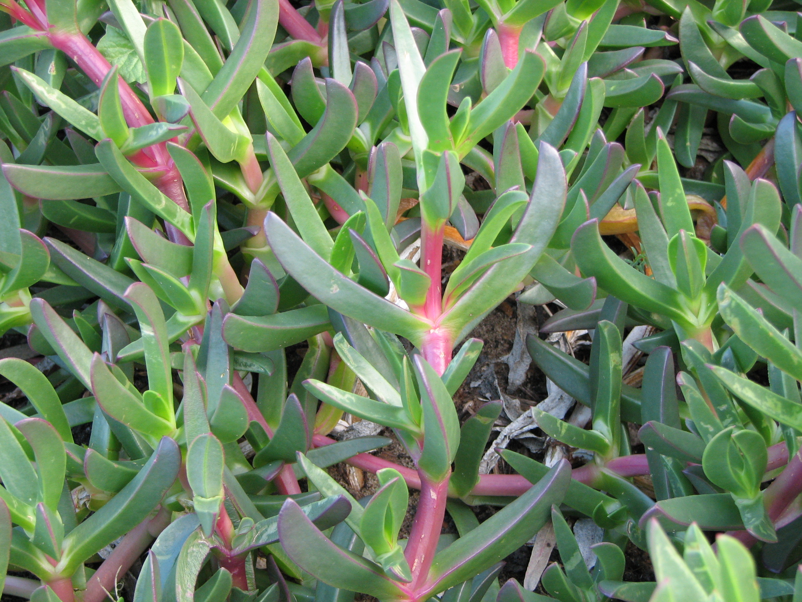 Taken by me in growing in Coogee, Sydney, NSW, Australia